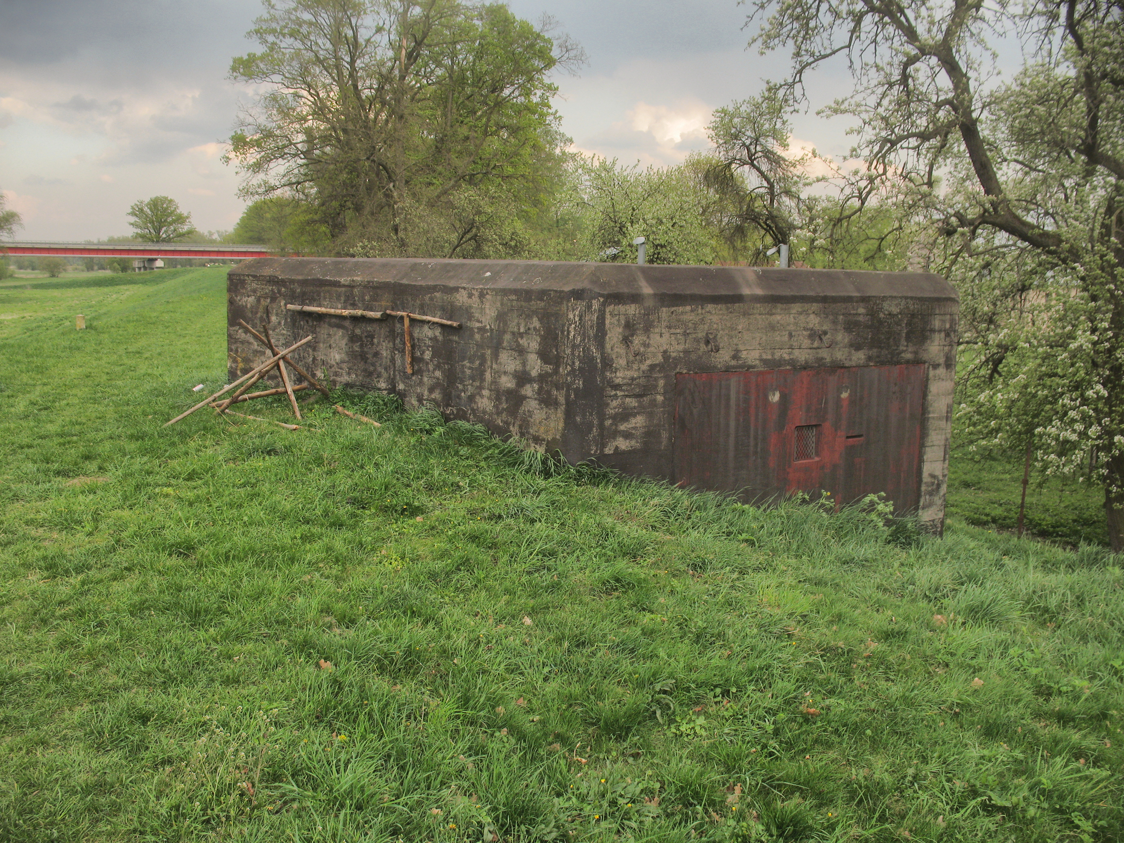 Oderstellung, its remains at the village of Leśna Góra